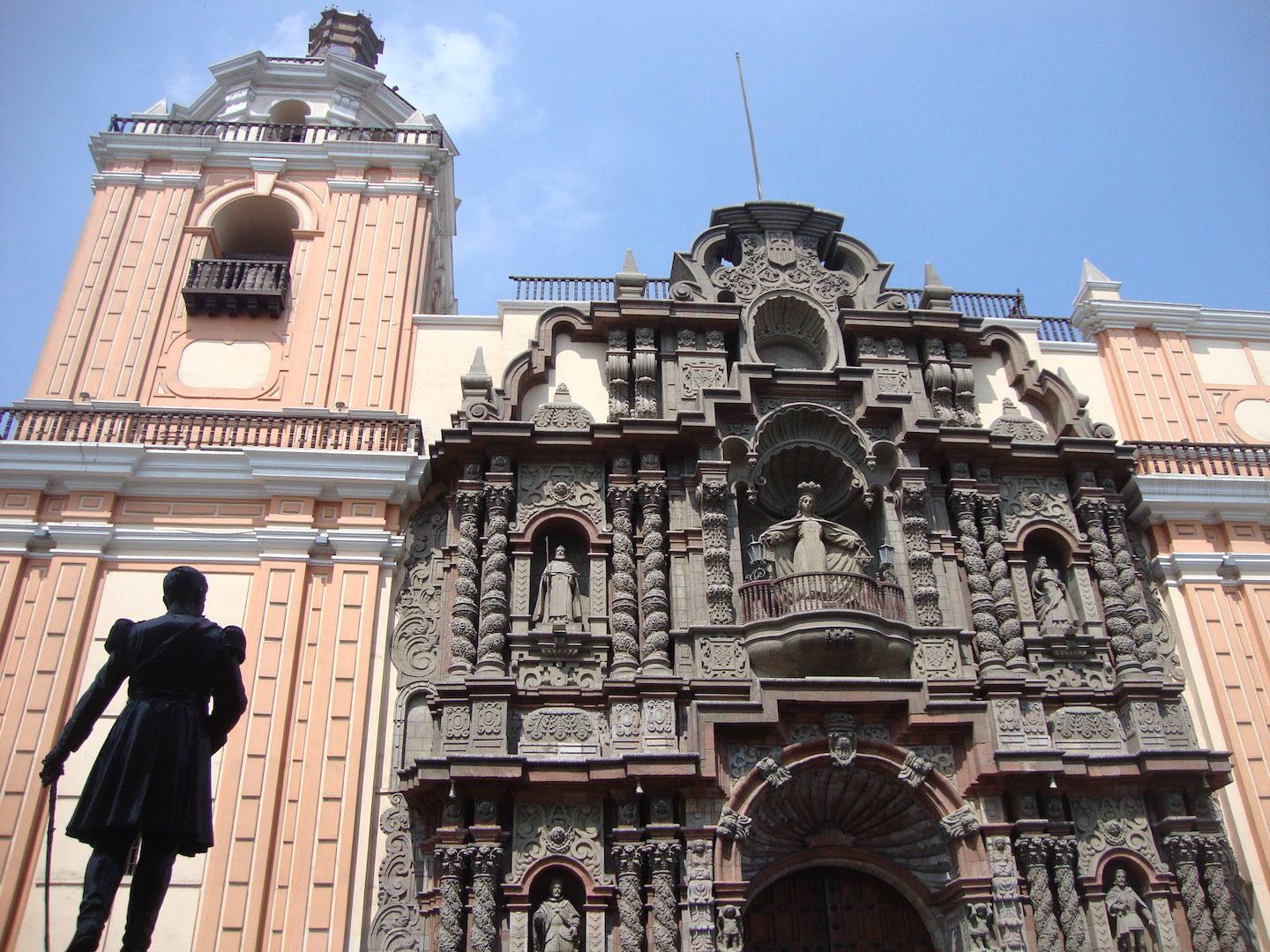 Basílica Lima, Perú.